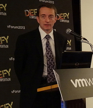 Pat Gelsinger at Jamsil Lotte Hotel, Seoul, South Korea, on Nov 5, 2013